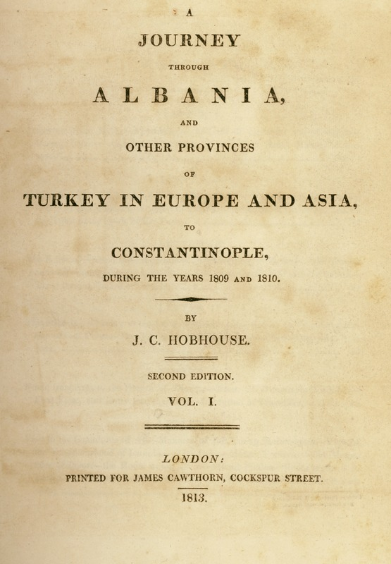 A journey through Albania - Title page - Hobhouse John Cam Lord Broughton - 1813